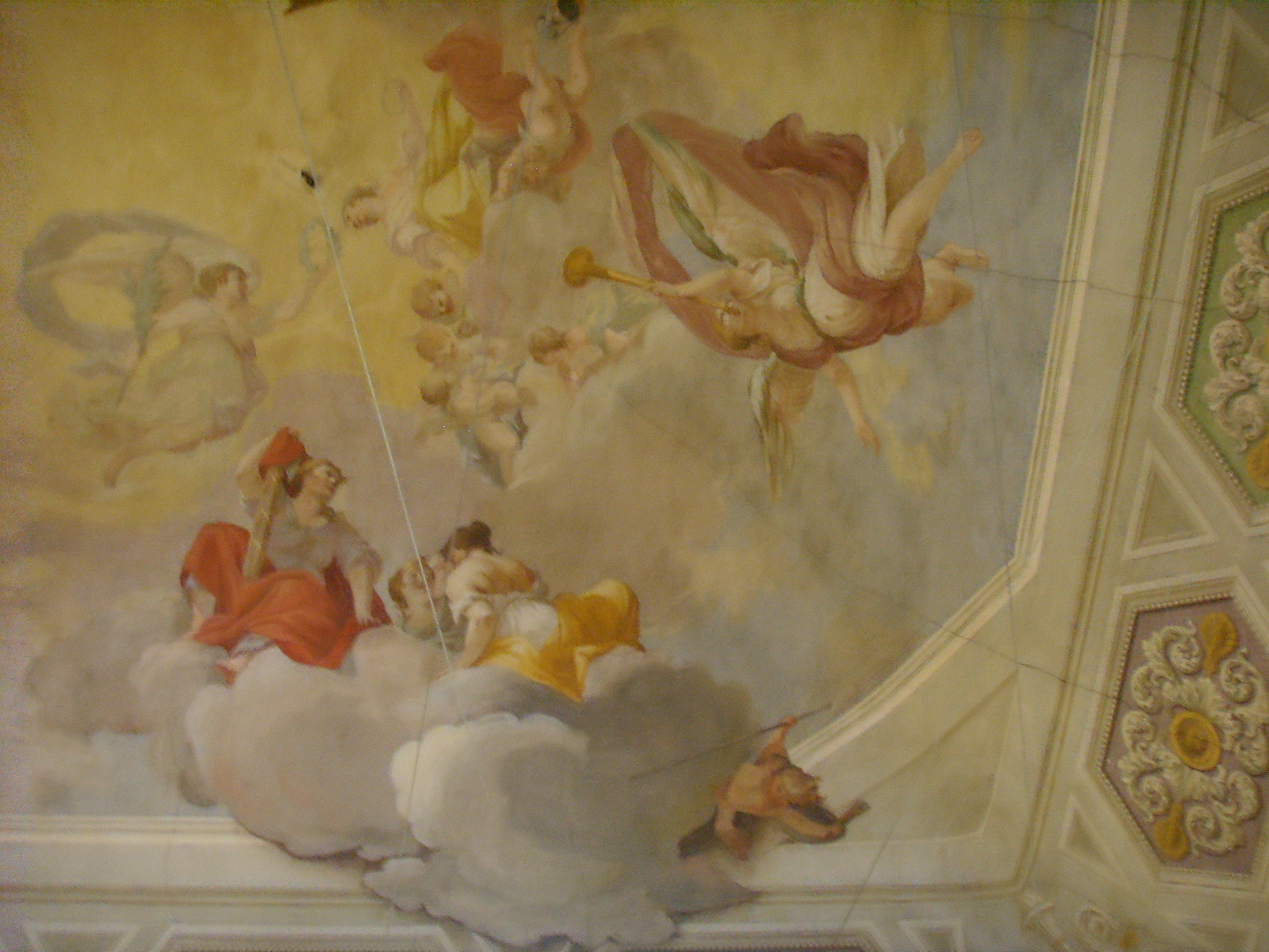 Palazzo_di_San_Clemente,_ library frescoed rooms. See filename for room ref. number Frescos of XVIII century by unknown author(s) in Florence